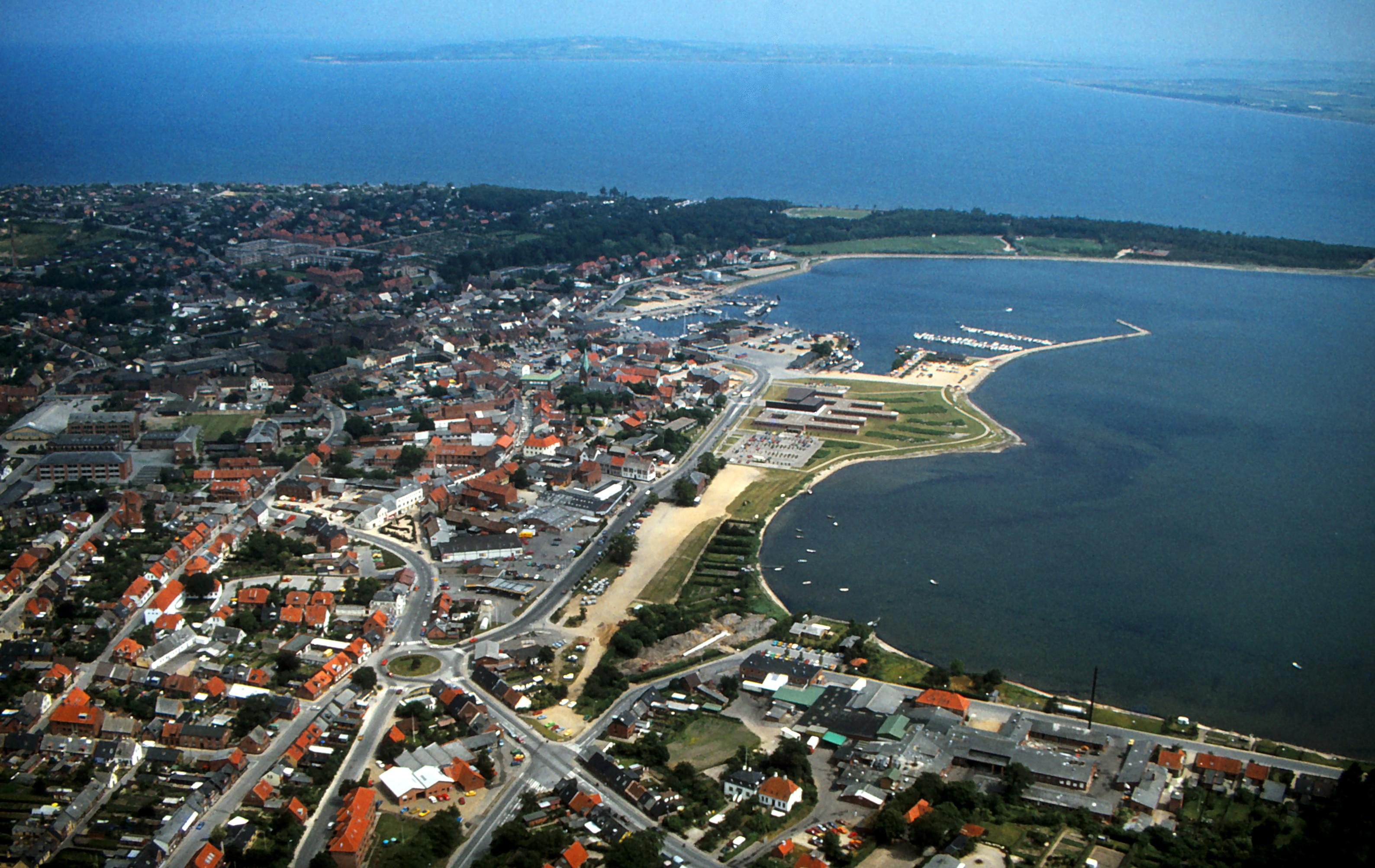 the pilot of the OY-MVX Scheibe SF-25B Falke invited me for a flight, we went all the way around the island Mors, Nykøbing Mors danmark